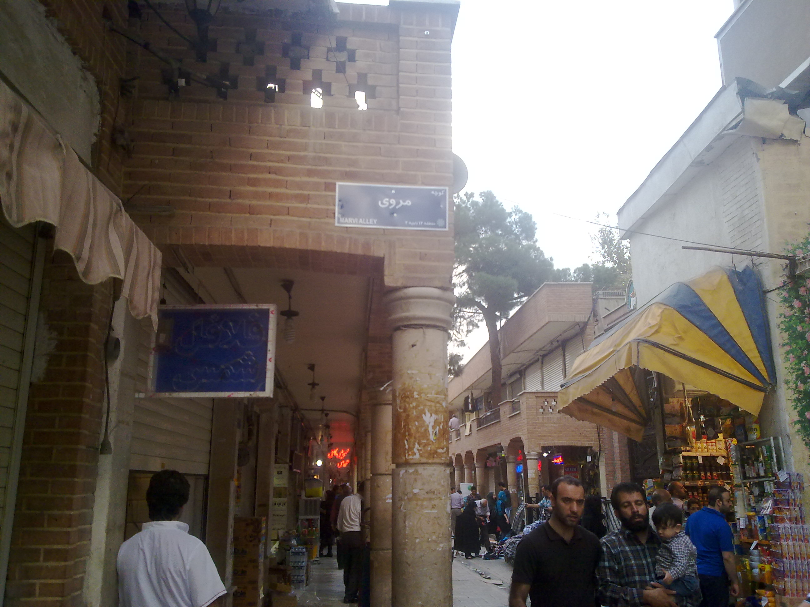 Kooche Marvi intersection with Naser Khosro St. - About sunset.